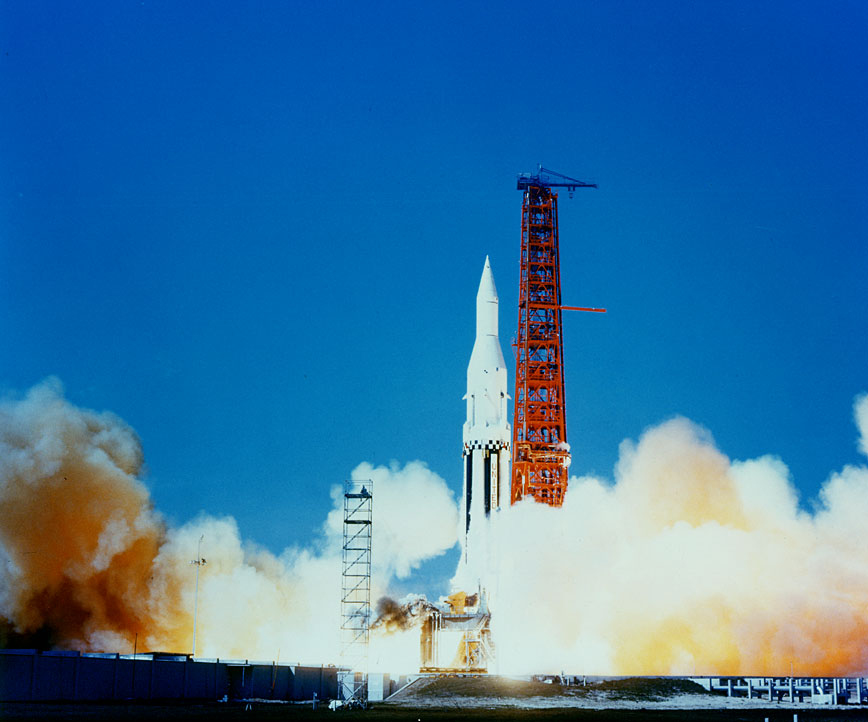 Launch of SA-4, fourth successful Saturn research and development flight